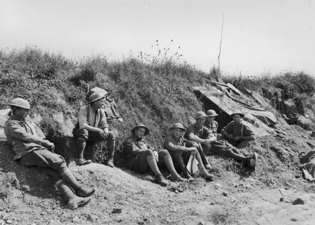 Australian soldiers from the 34th Infantry Battalion at Picardie, France, 21 August 1918